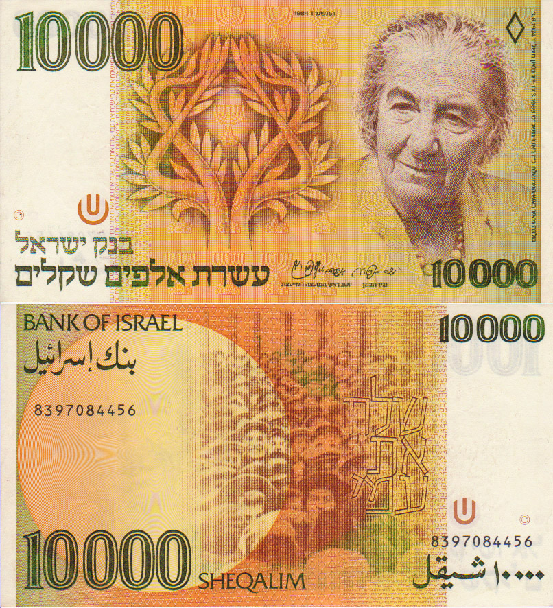 Israel 10,000 (old) sheqel banknote, 1984. It was replaced with a 10 new sheqel banknote with identical design in 1985. Both notes are out of circulation today. The note features a portrait of Golda Meir and the crowd of Russian Jews welcoming her as the first Israeli ambassador to the Soviet Union, with the inscription shaláħ et ʻamí ("Let my people go", Exodus 9:1).